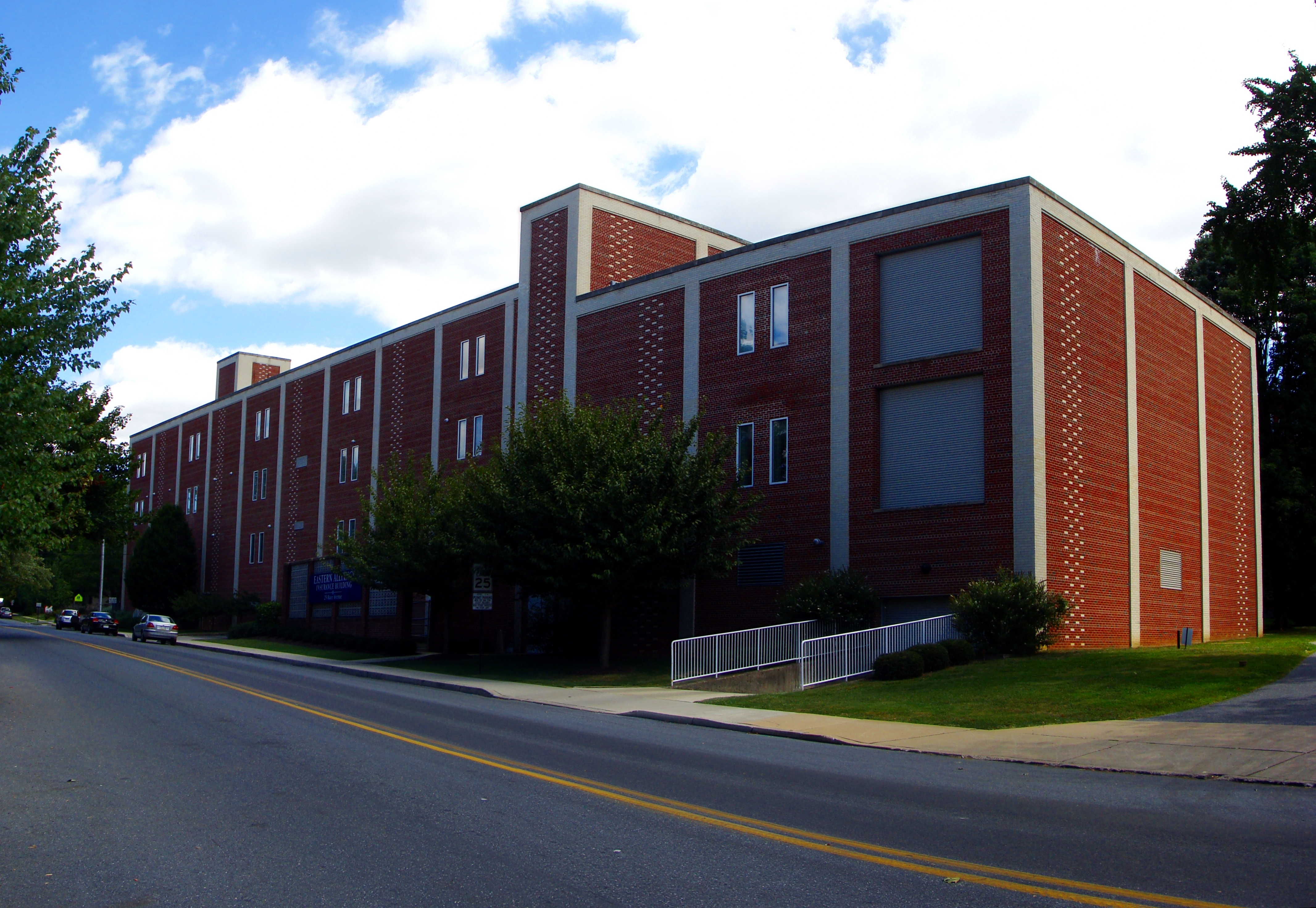 The Hamilton Watch Complex on Columbia Avenue in Lancaster, Pennsylvania. The buildings are the former factory and headquarters of the Hamilton Watch Company. Originally three vertical photos. This panoramic image was created with Autostitch (stitched images may differ from reality).